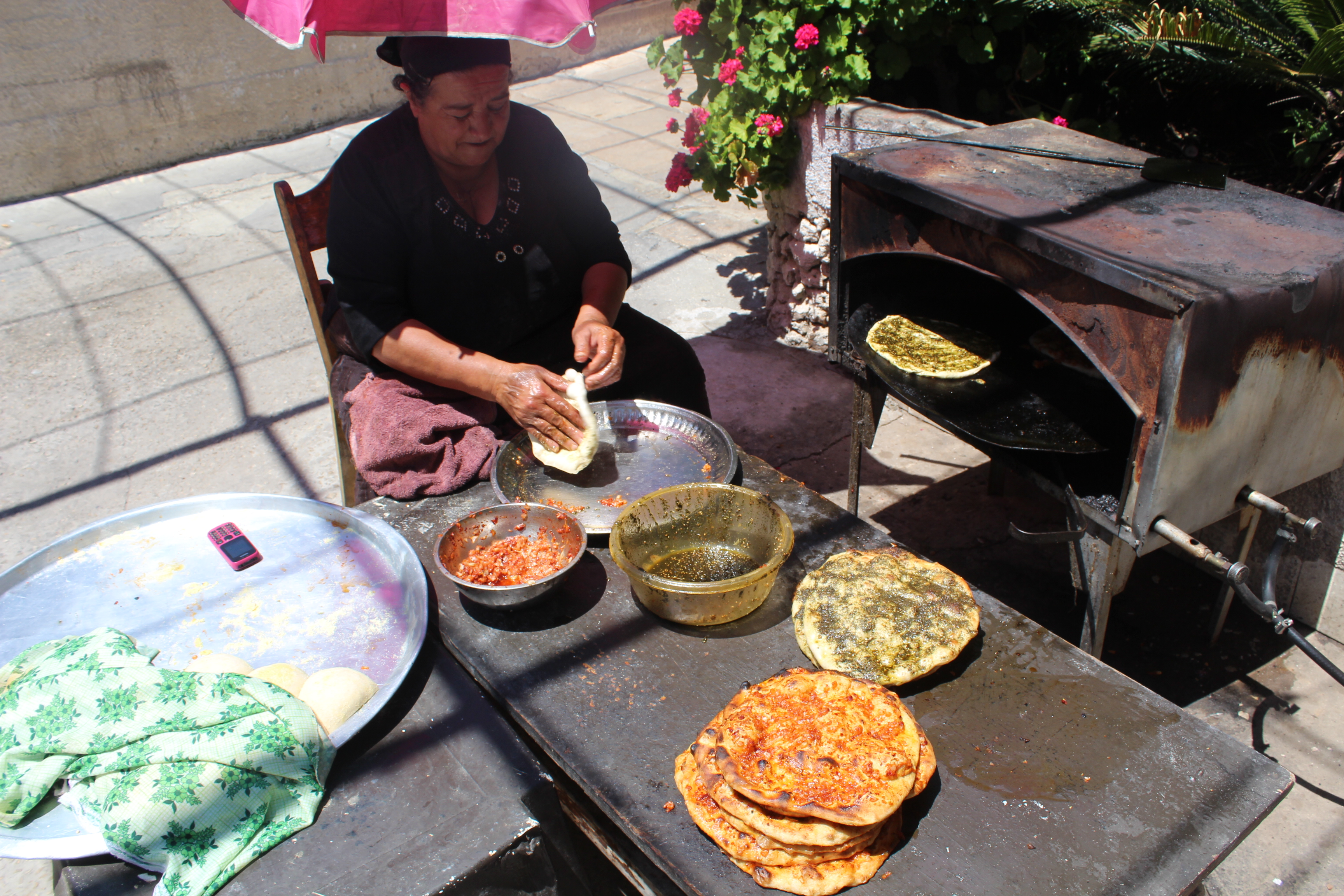 Druze Pittah, Isfiya, Israel This image was taken as part of the Elef Millim project trip to the Druze villages in Daliyat al-Karmel and Isfiya Israel which was held on Friday,08th May 2015. To view all images uploaded as part of the Elef Millim Project